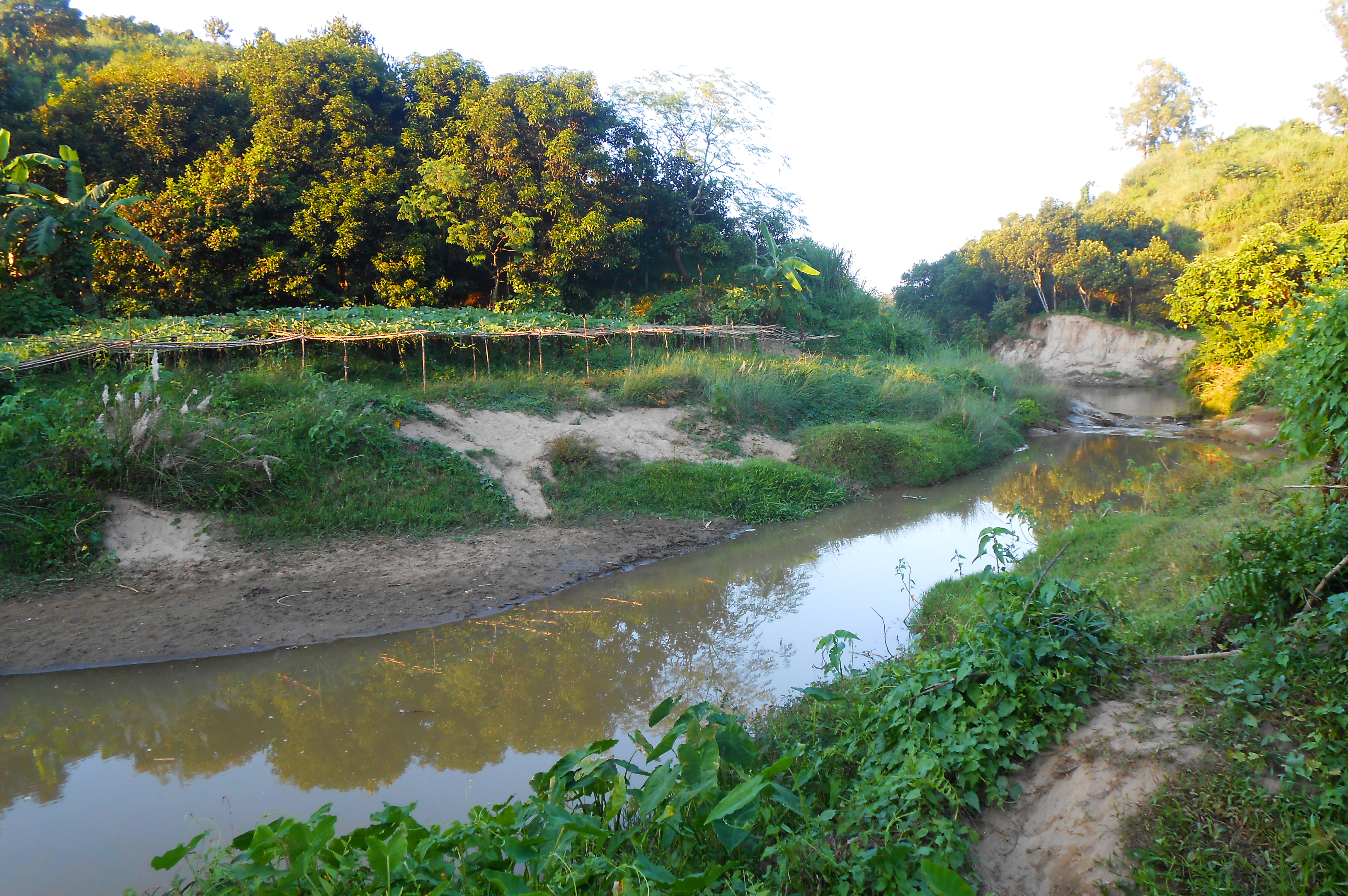 Backside view from Arts Faculty, University of Chittagong